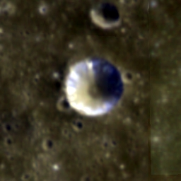 Seeliger crater (Clementine false color image)